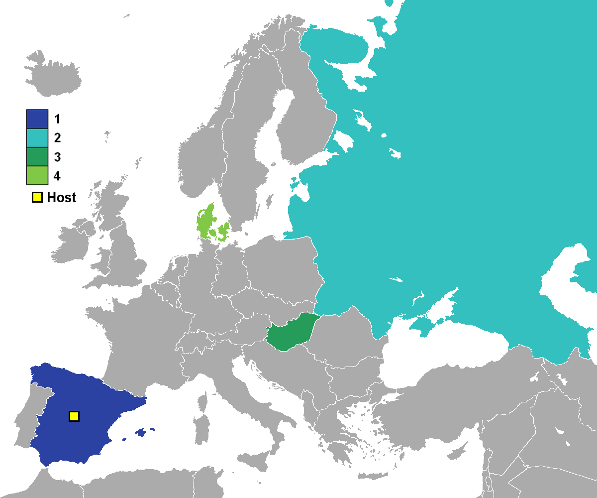 European Nations' Cup 1964 final team ranking, showing: Winner (dark blue) Runner-up (light blue) 3rd (dark green) 4th (light green) Yellow square is host nation (Spain).